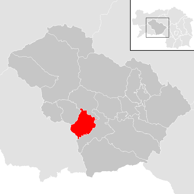 district Murtal in Styria, Austria